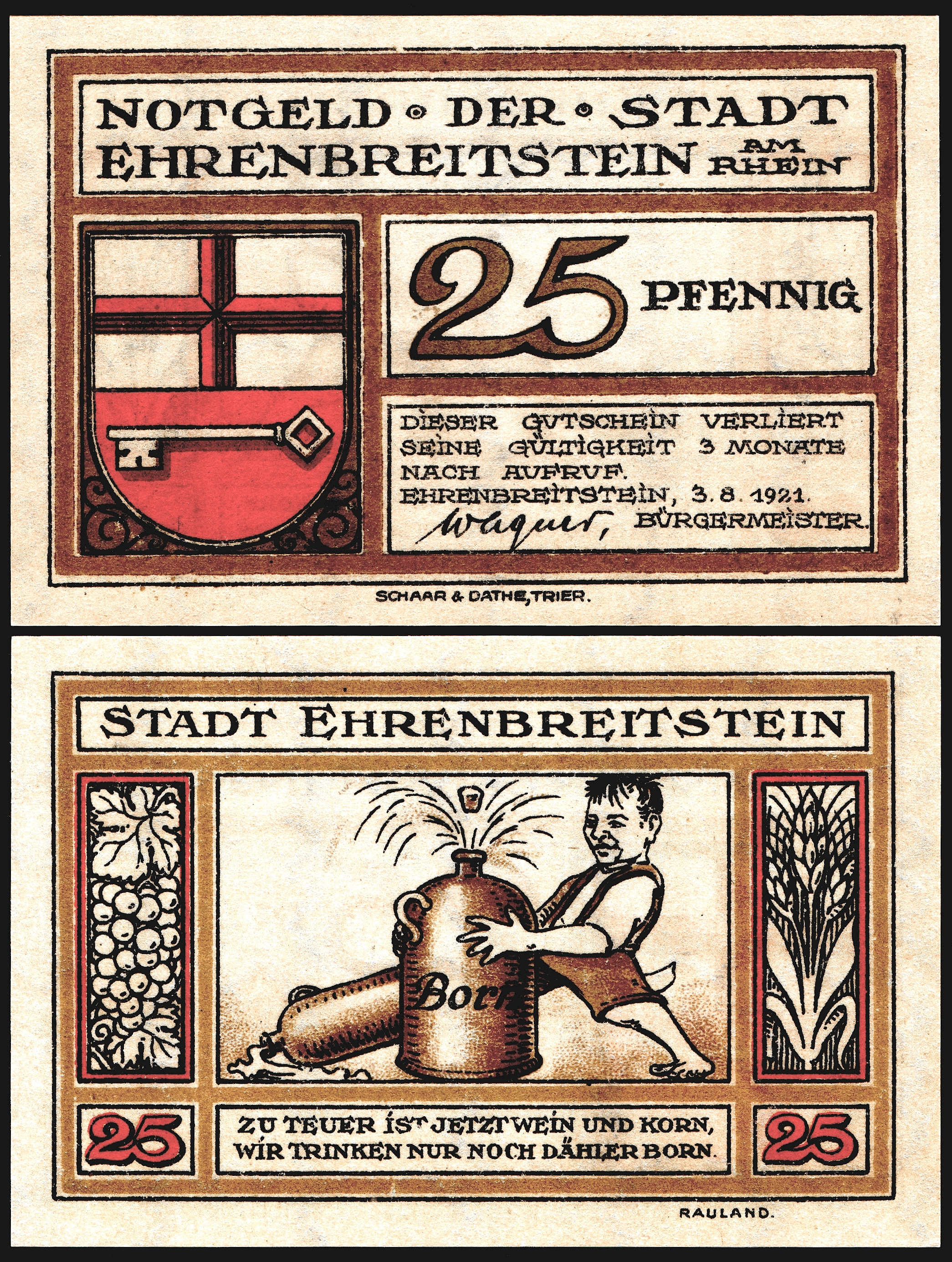 25 Pfennig Notgeld (emergency money) banknote, Stadt Ehrenbreitstein, 1921, RV: Mineral Water Dähler Born, size: 86 mm x 57 mm.